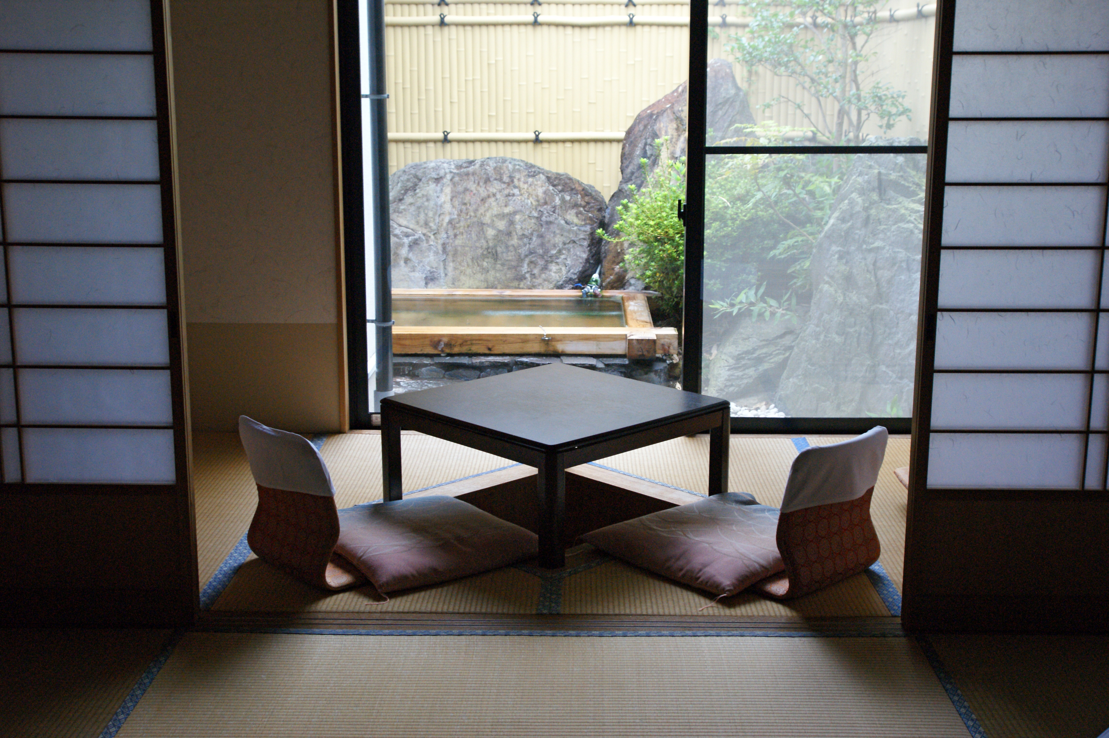 Shikano Onsen, Tottori, Tottori prefecture, Japan